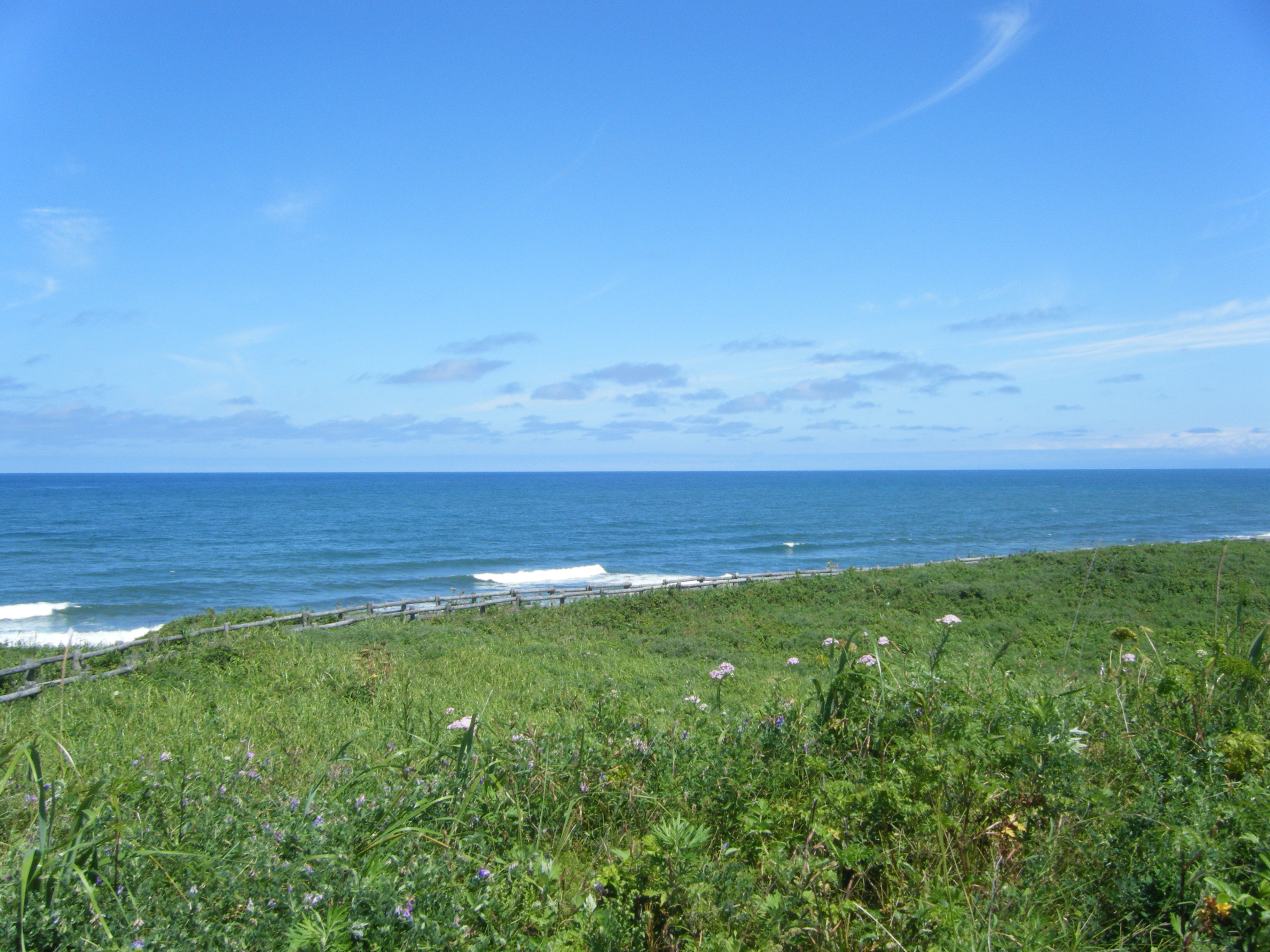 Sea of Okhotsk seen from Koshimizu Genseikaen in Koshimizu Town, Hokkaido, Japan